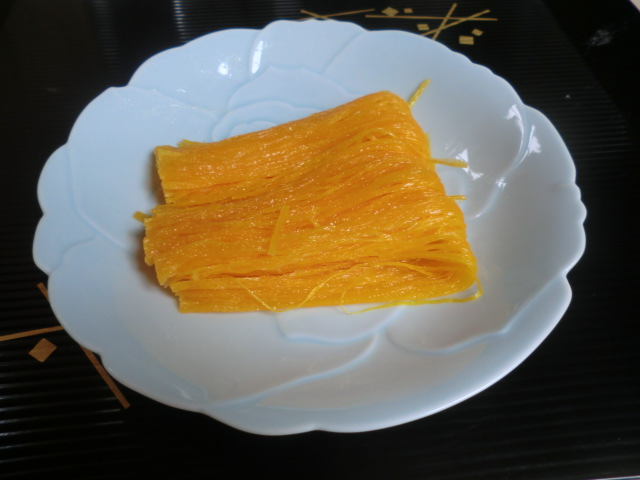 "Keiran Somen"(=Egg noodle) famous in Fukuoka city,Japan.It came from portuguese confectionary "Fios de ovos".